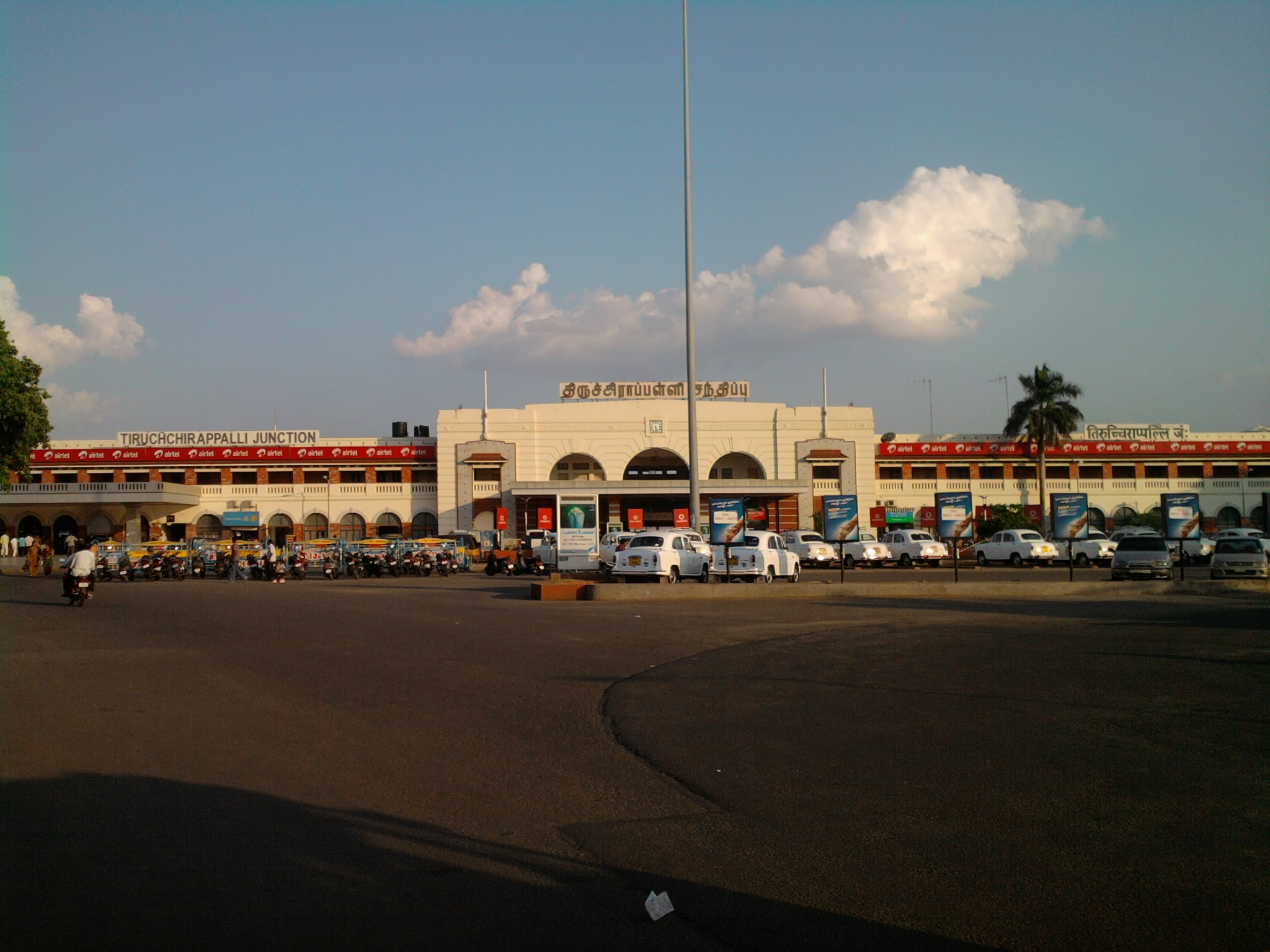 Entrance of Trichy Junction